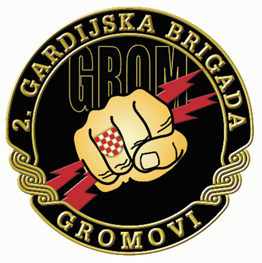 Badge of the regular Croatian military unit "Gromovi" (Thunder) during the War of Independence